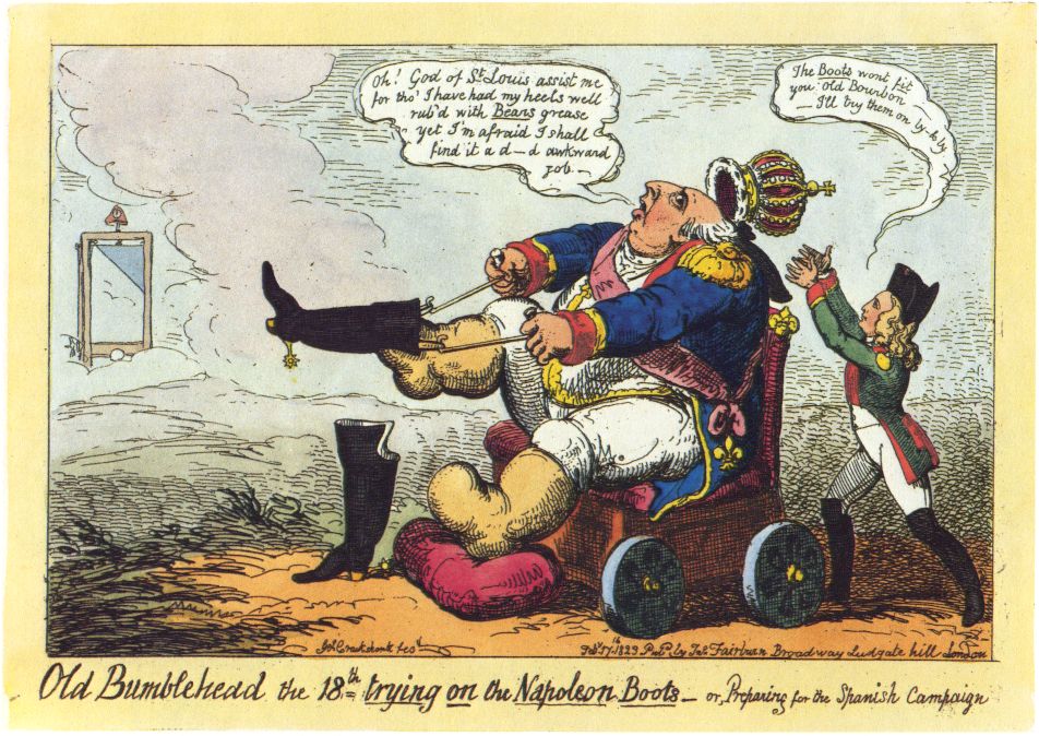 Depicted people: Louis XVIII and Napoleon II In spite of the "Bears grease" (by which Russian support is meant), the French king Louis XVIII is not able to put on Napoleon's boots. Napoleon's son stands ready to catch the Bourbon crown if it might fall. In the background, a guillotine topped with a liberty cap appears out of the fog.